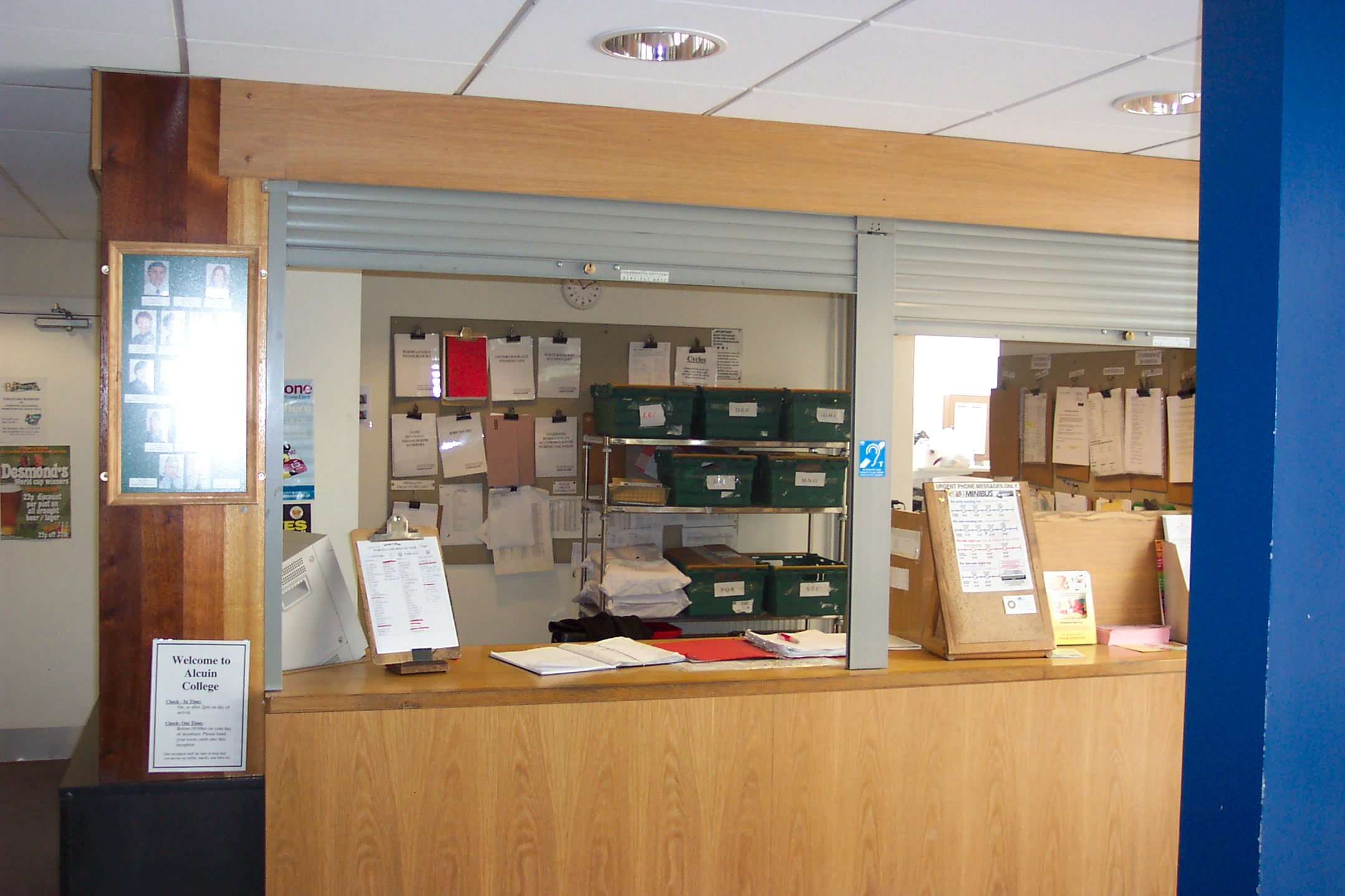 A photograph of the Alcuin College Porters' Lodge. Taken by Chris Northwood